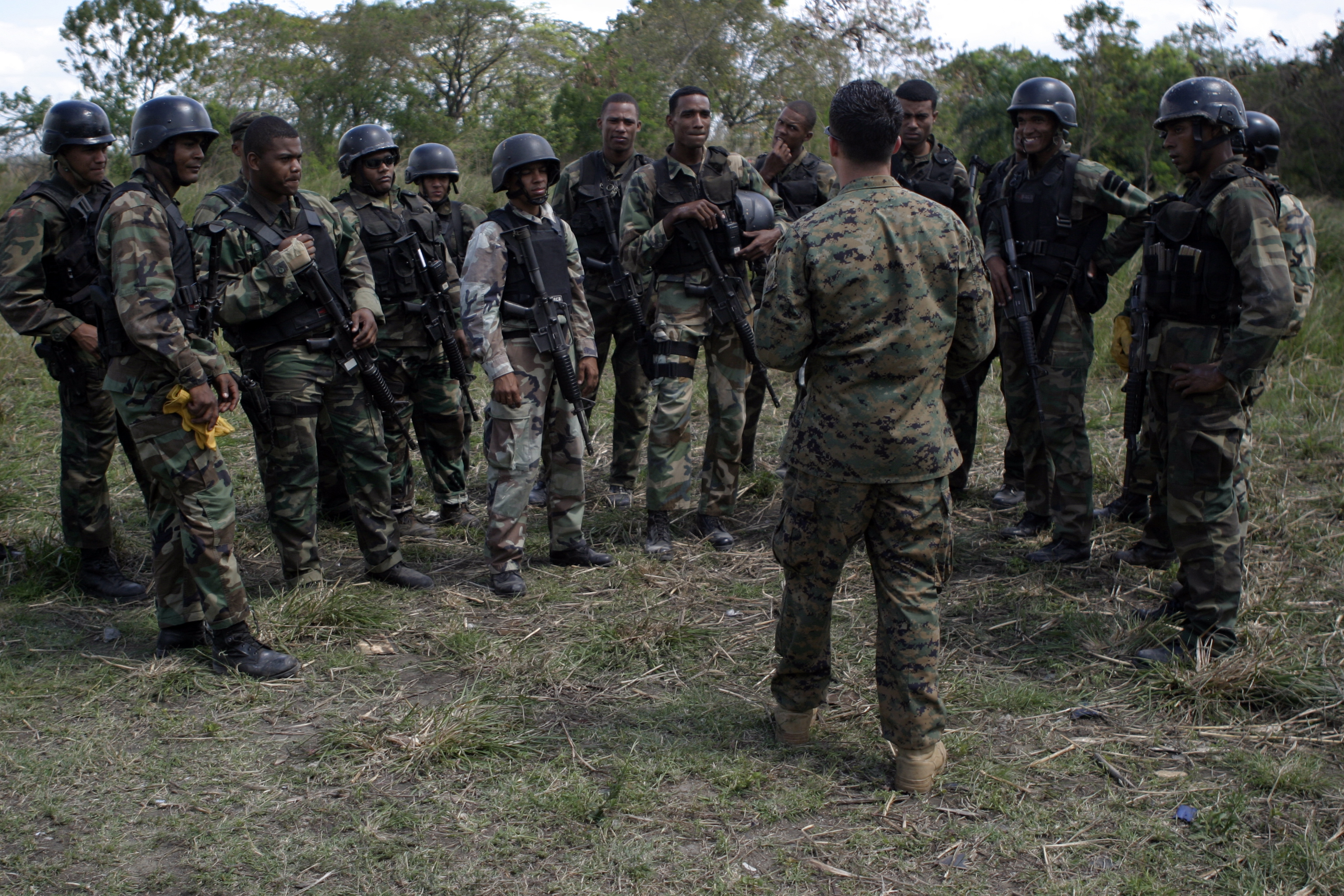 A Marine with U.S. Marine Corps Forces, Special Operations Command, gives feedback to Commandos with a Dominican Republic counterterrorism unit known as Secretaria De Las Fuerzas Armadas Commando Especial Contra Terrorismo, on their combat tactics at Ciudad Del Niño here, March 9. A team of operators with MSOAG, MARSOC, trained the commandos as part of U.S. Southern Command, Special Operations Command South’s Exercise Fused Response.